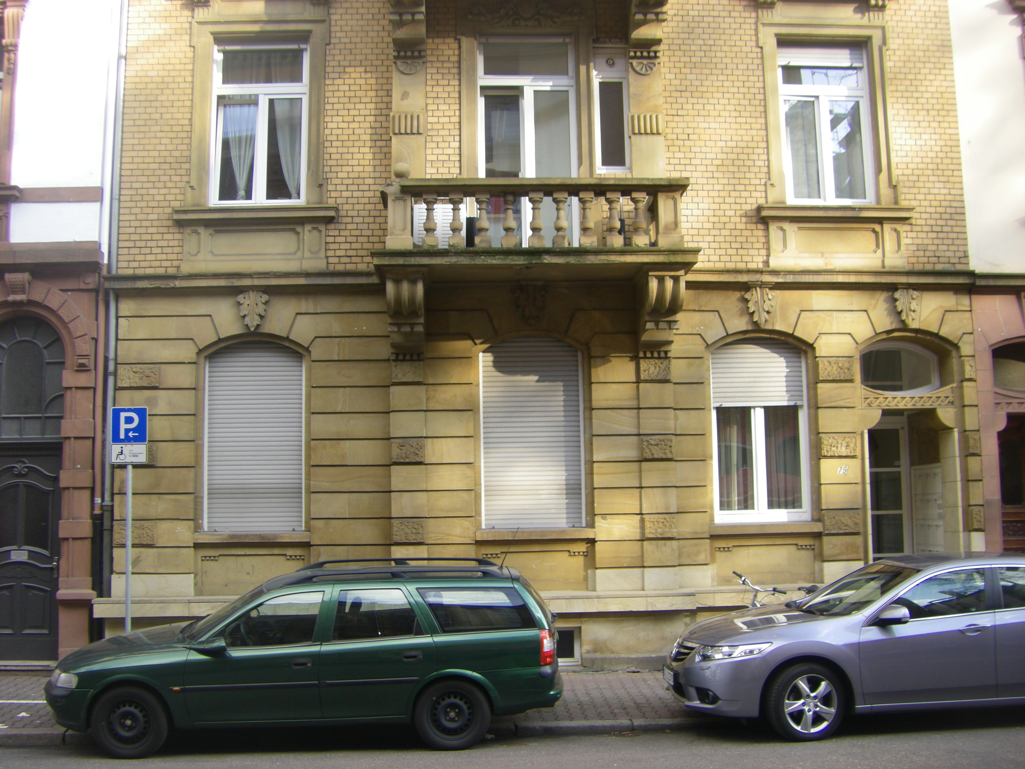 The ground floor of this house was a conspirative apartment by Red Army Faction (RAF) in 1979